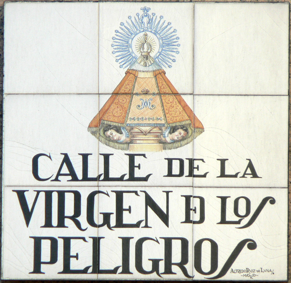 Sign of Calle de la Virgen de los Peligros (street, Centro district) in Madrid (Spain).